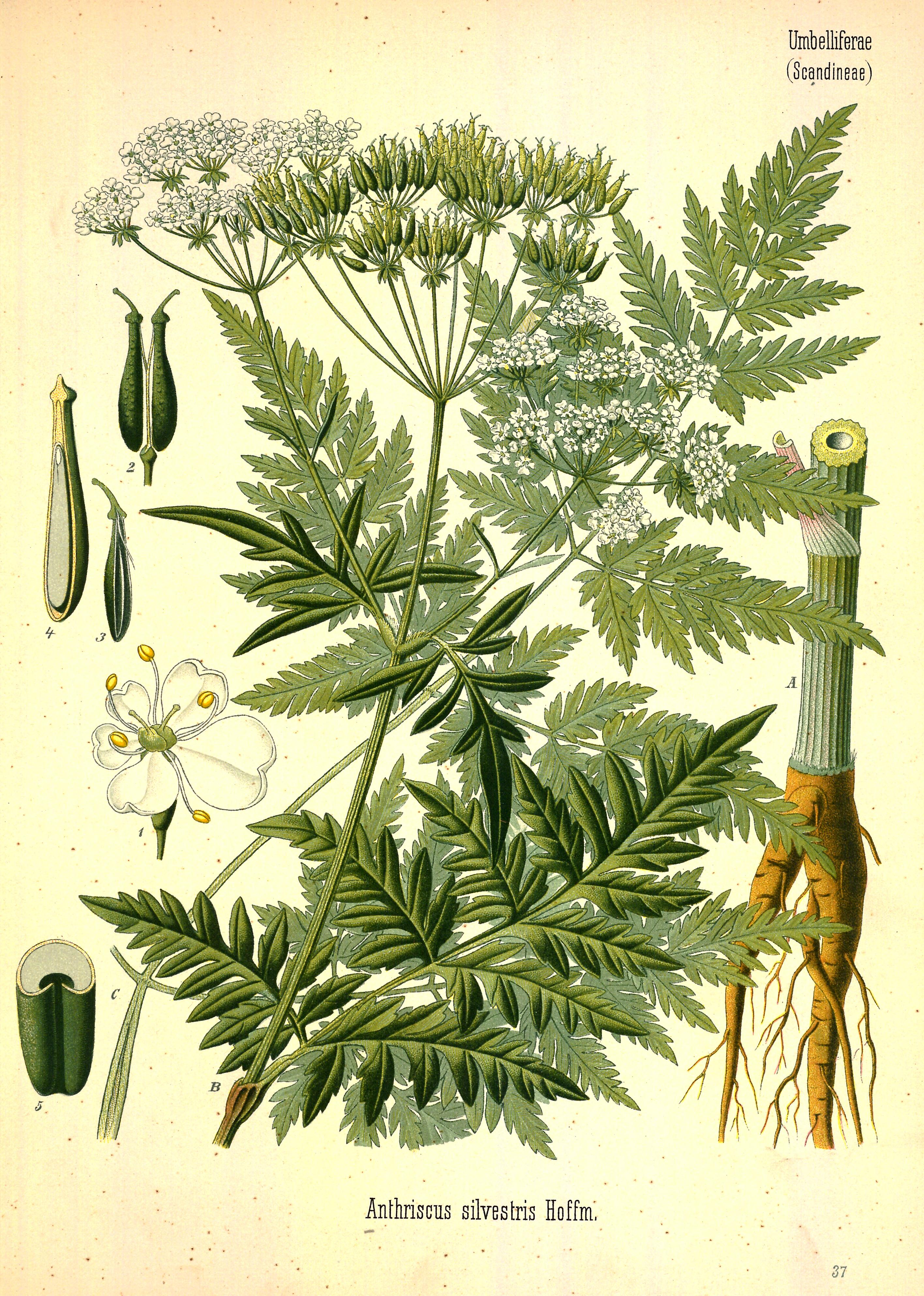 Anthriscus sylvestris (L.) Hoffman Plate description: A root and lower part of the stalk, B flowering part of the plant, C leaf of stalk. 1 flower; enlarged; 2 schizocarp; 3 a part of the fruitlet from the groove-side; 4 longitudinal section; 5 transverse section. After living plants from the Flora of Gera, Reuss.